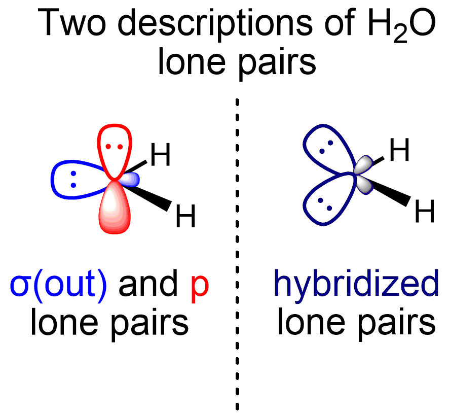 Two descriptions of the H2O lone pairs.